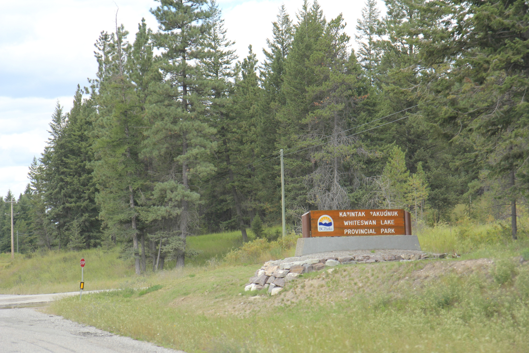 The entrance to Whiteswan Lake Provincial Park along BC93 / BC95.